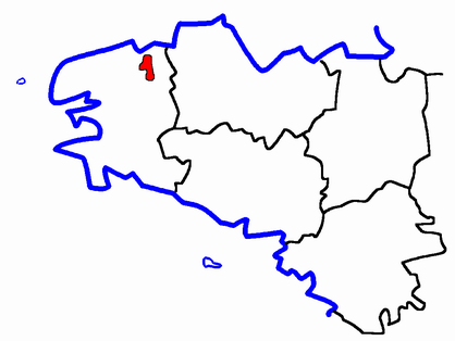 Description: Map for localisazion of cantons of Bretagne region in France Source: made by Hervé Tigier in april 2005 from another large map (published in 1990)